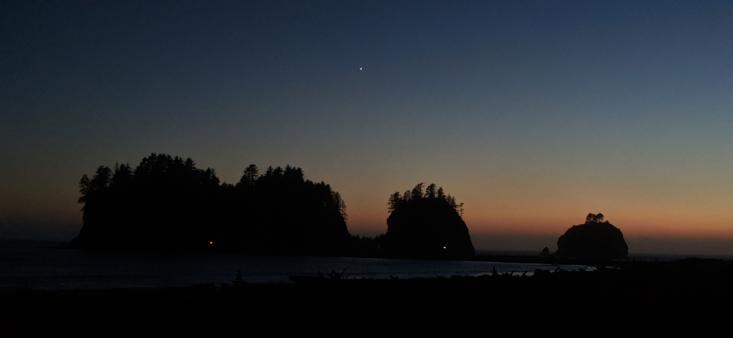 James Island, view from First Beach, La Push, after sunset, with Venus visible in the sky, and red and green harbor channel markers visible at the entrance to the Quillayute River